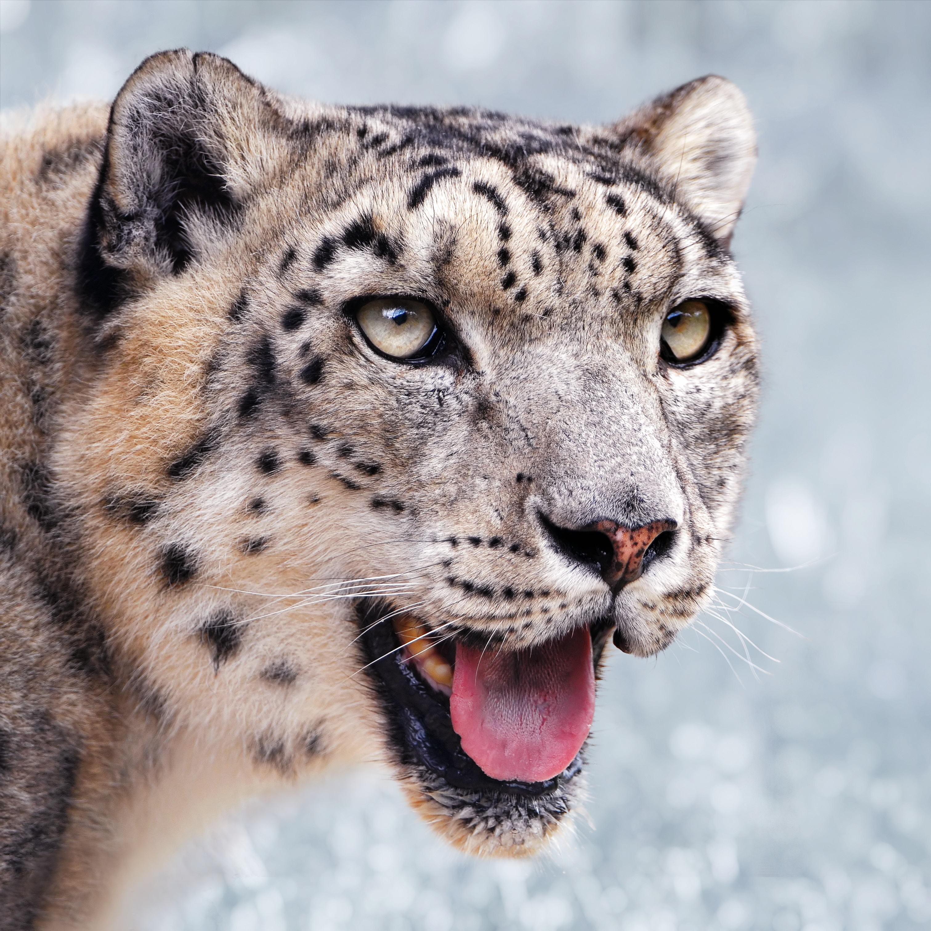 Portrait of a male snow leopard (Panthera uncia) of the Rheintal zoo. Colors were corrected and the background was changed to a "winterized" style.